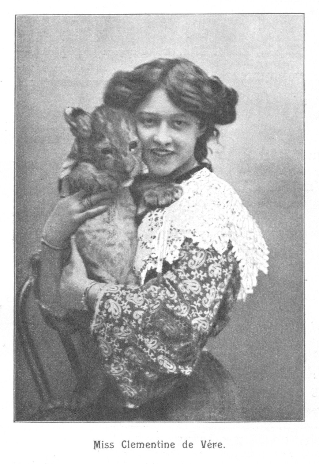 Portrait of Clémentine de Vère (1888-1973), British-Belgian actress and illusionist performing mainly in Paris.